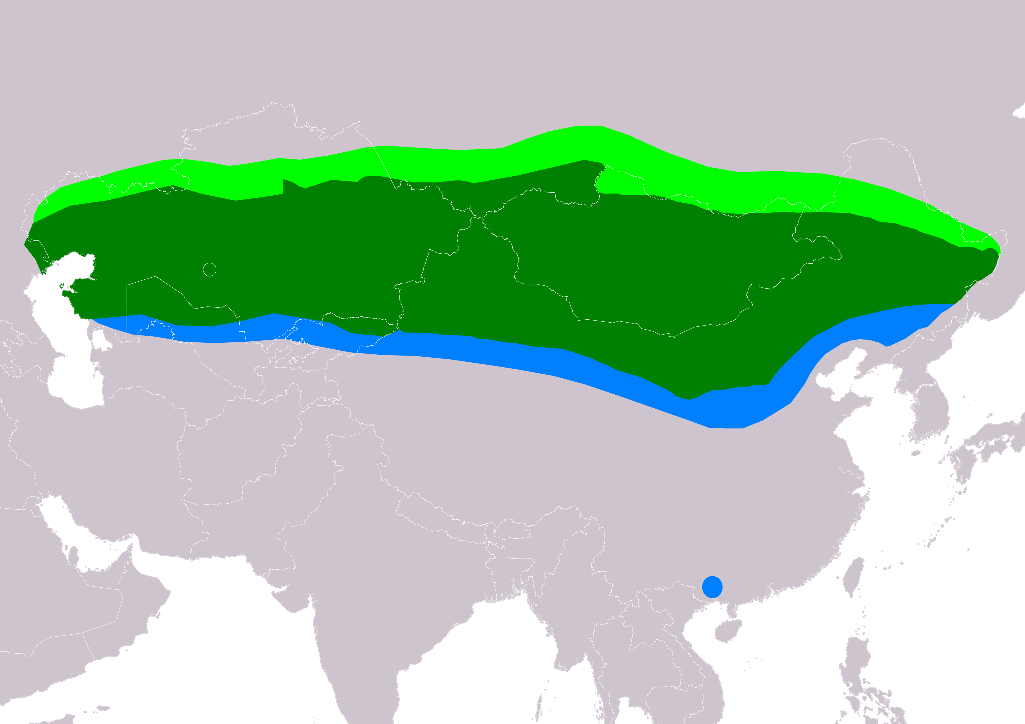 Distribution map of pallas's Sandgrouse (Syrrhaptes paradoxus) according to IUCN version 2020.1 (compiled by: BirdLife International and Handbook of the Birds of the World (2016) 2016.); key: Legend: Extant, breeding (#00FF00), Extant, resident (#008000), Extant, non-breeding (#007FFF)